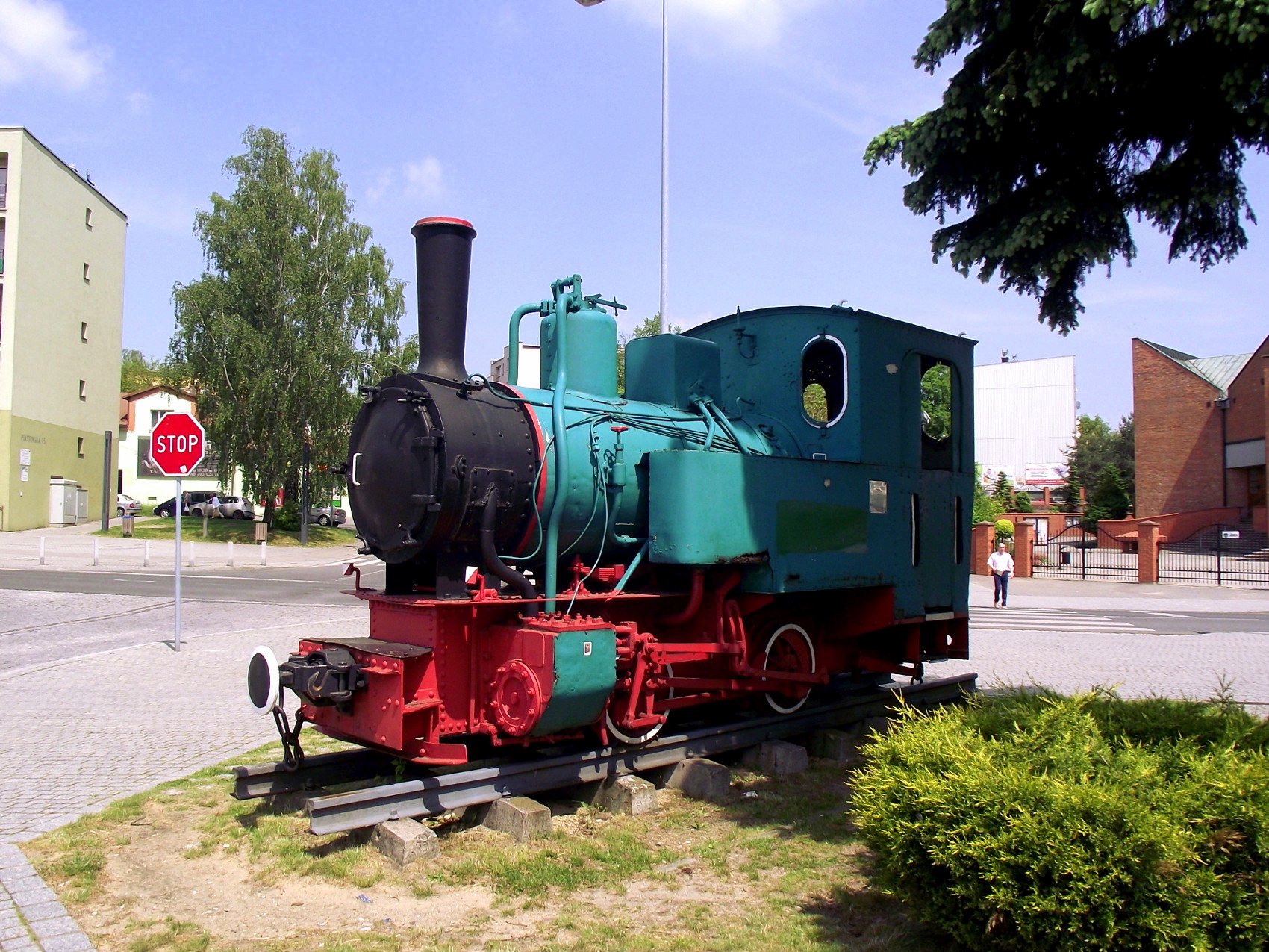 Steam locomotive "Ryś" as a memorial at Tysiąclecia Square in Chrzanów, Poland.